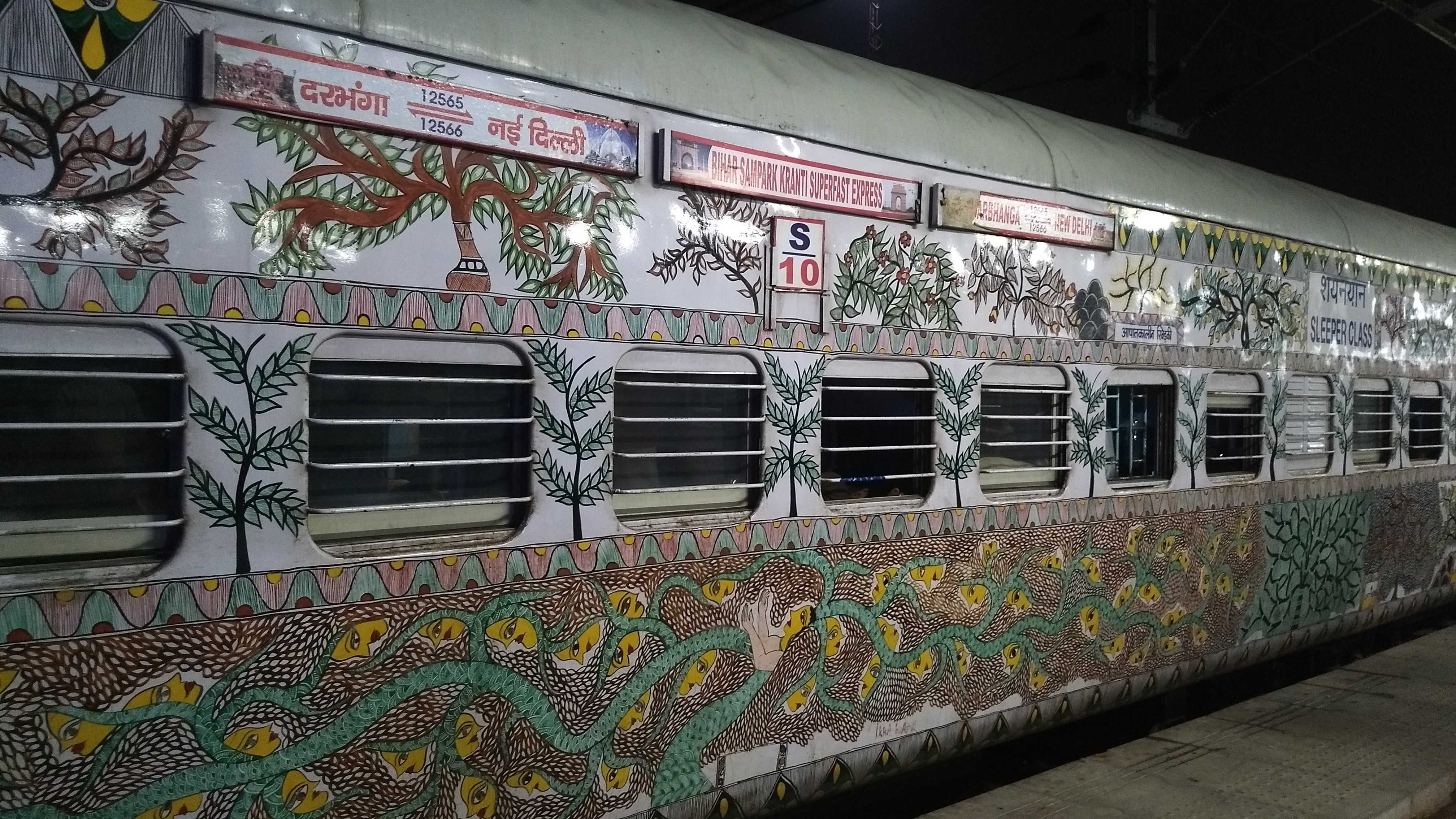 This photo has been taken in the country: India